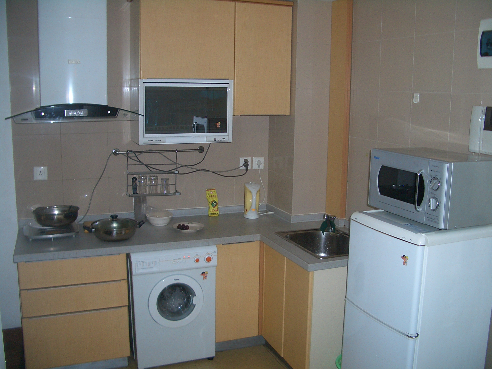 The kitchen area of a Shanghai apartment equipped with Haier refrigerator, microwave, dish drier, clothes washer, and exhaust fan. (They have a Haier air conditioner too, but it's not in the picture)